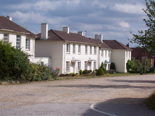 Ethelburt Avenue, Southampton Ethelburt Avenue is part of the Bassett Green Estate, a Garden Village, designed by Herbert Collins